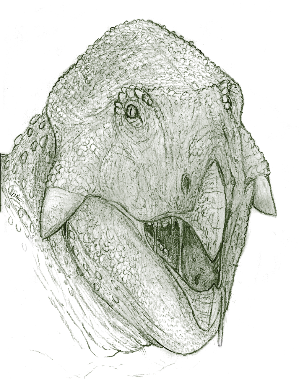 A reconstruction of Ferrisaurus, the new British Columbian leptoceratopsid.